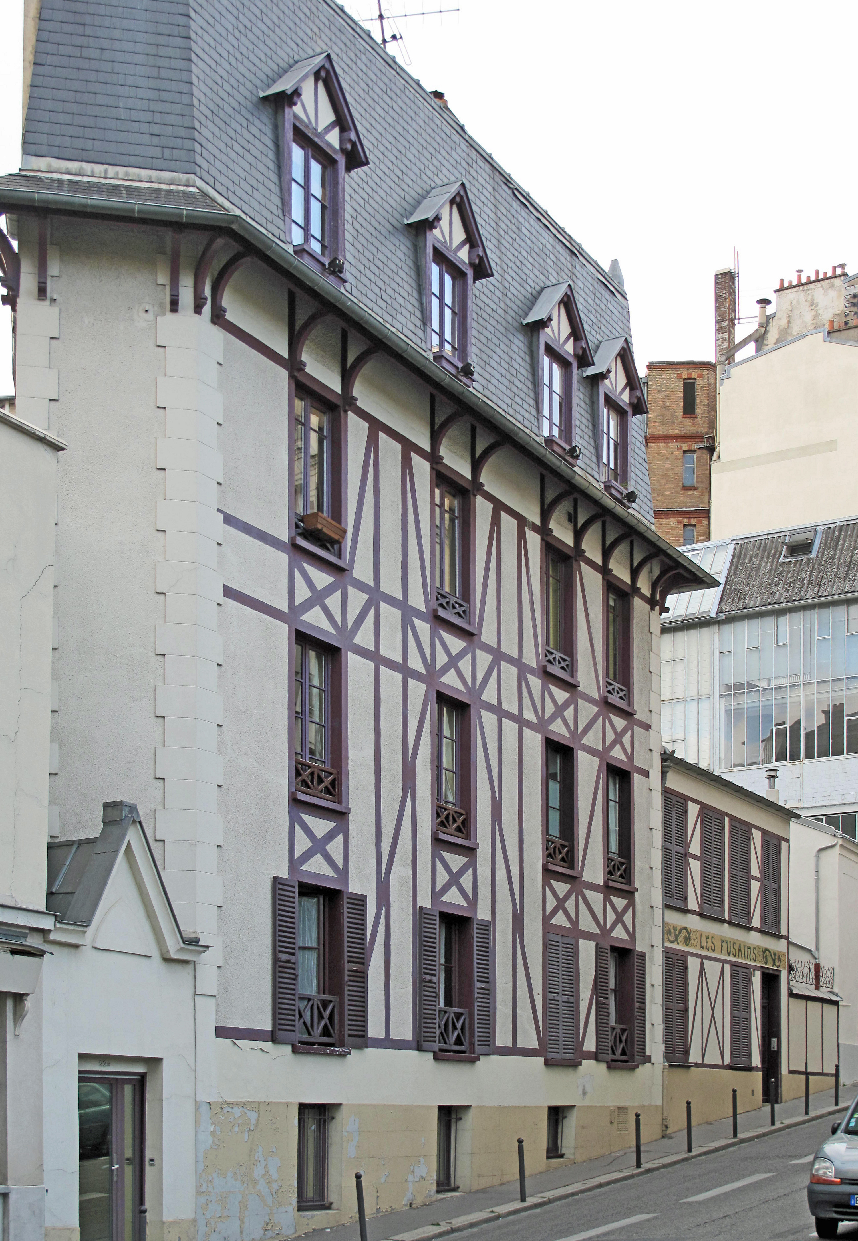 Overview on "Les Fusains" : 22, rue Tourlaque, Paris 18th arr. Some french painters lived here : Derain since 1906, Bonnard since 1913 and Miro since 1927.